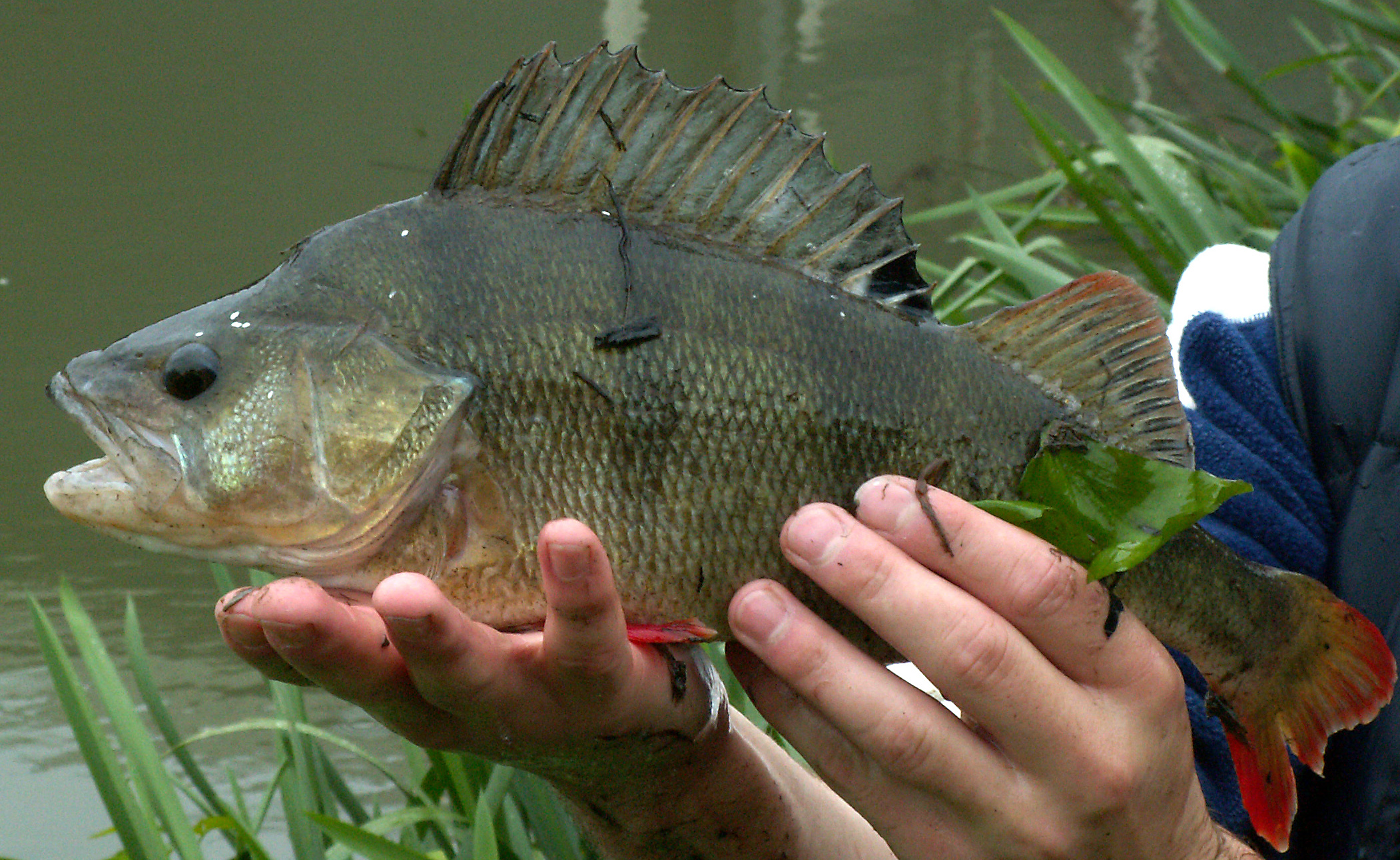 Big Perca fluviatilis from Utrecht, the Netherlands